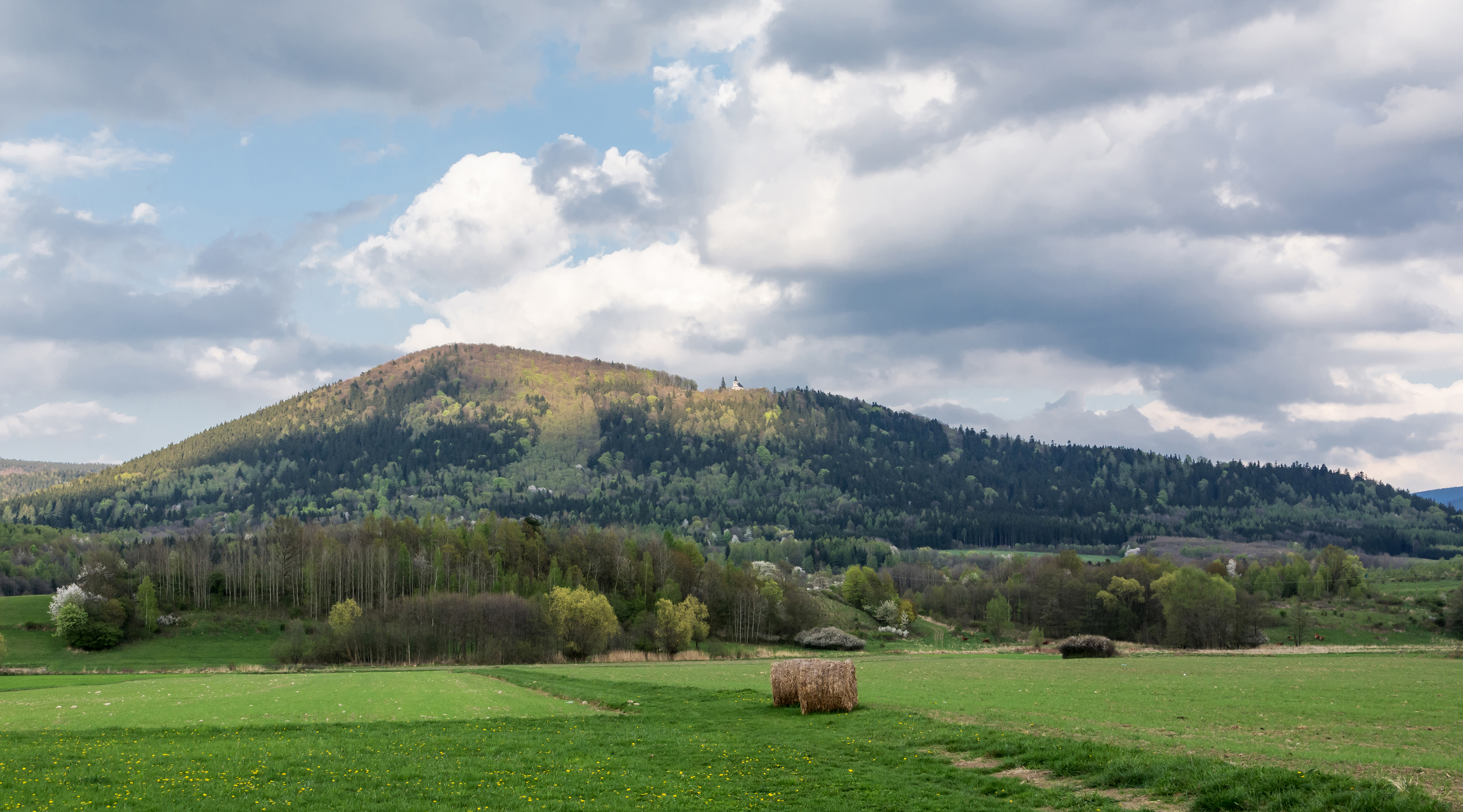 Igliczna, Śnieżnik Mountains, Sudetes, Poland